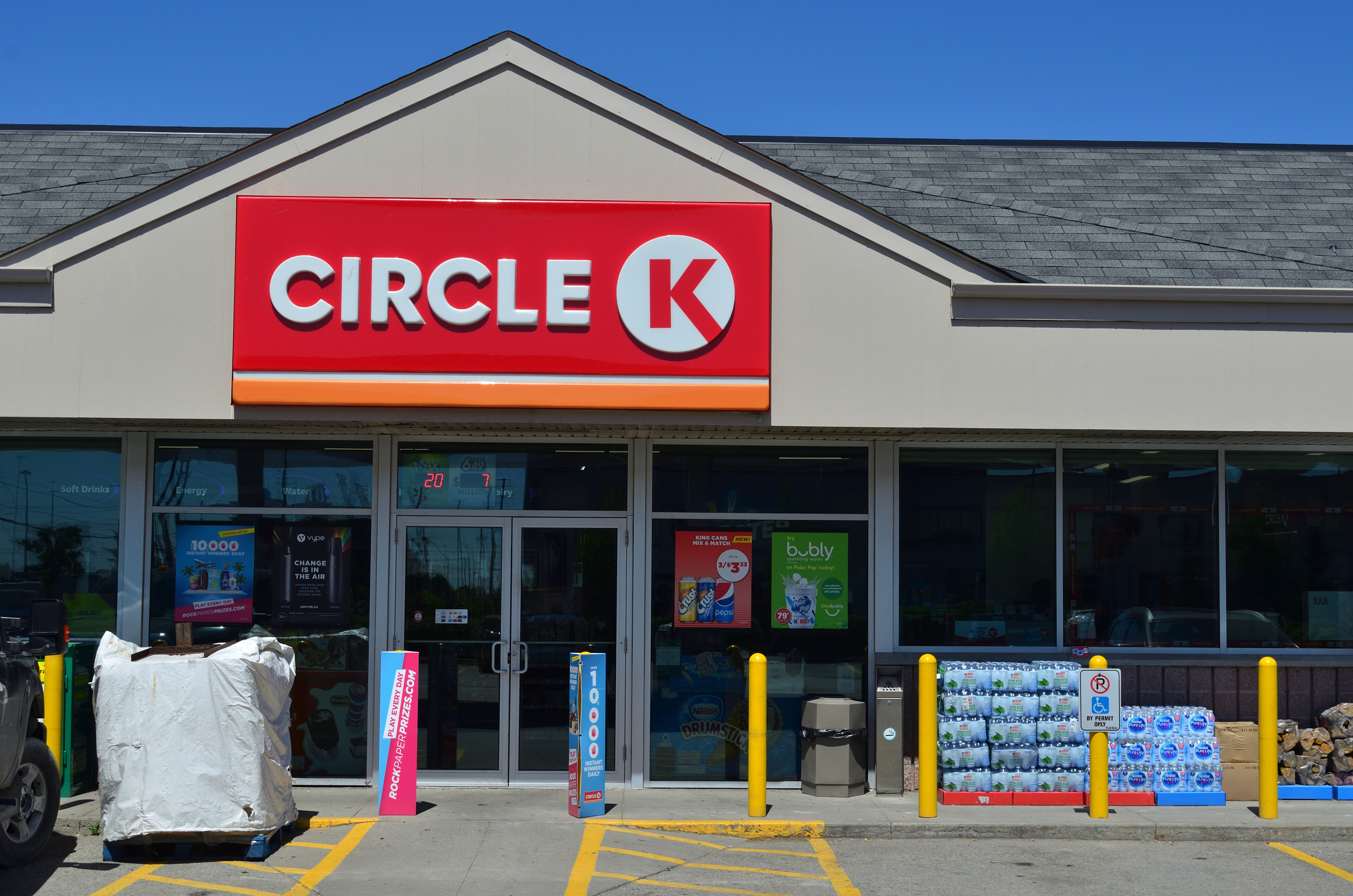 Circle K in Markham